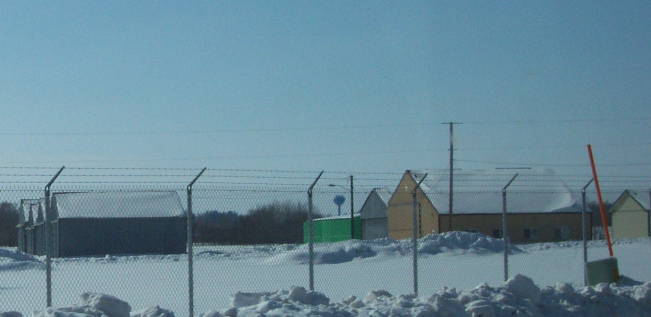 The Clintonville Municipal Airport east of Clintonville, Wisconsin, USA.